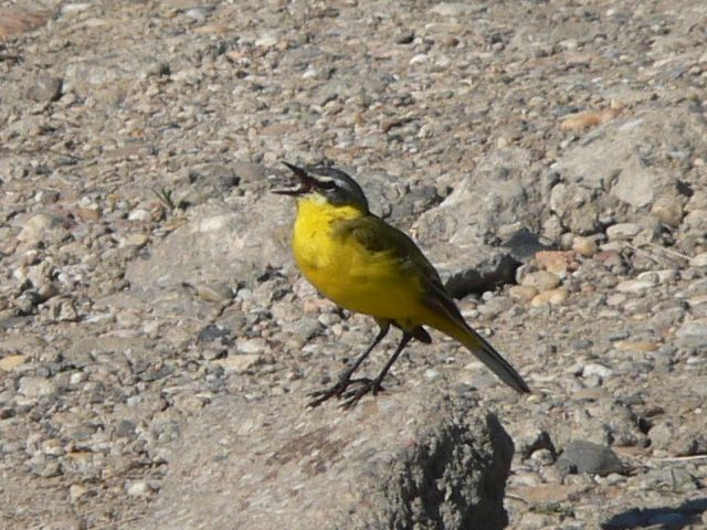 Blue-headed Wagtail